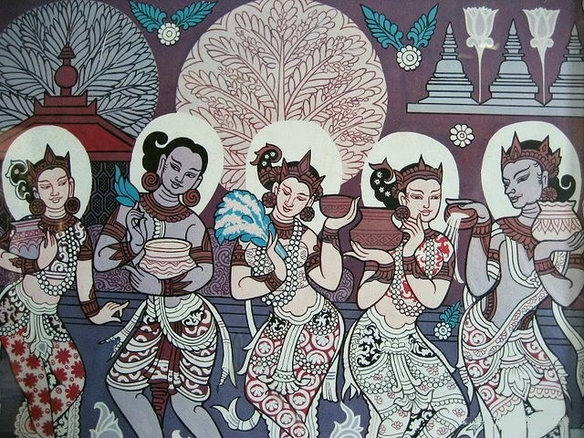 The painting of Thingyan festival by Pagan era artists မြန်မာဘာသာ: ပုဂံခေတ် သင်္ကြန်ပွဲတော်